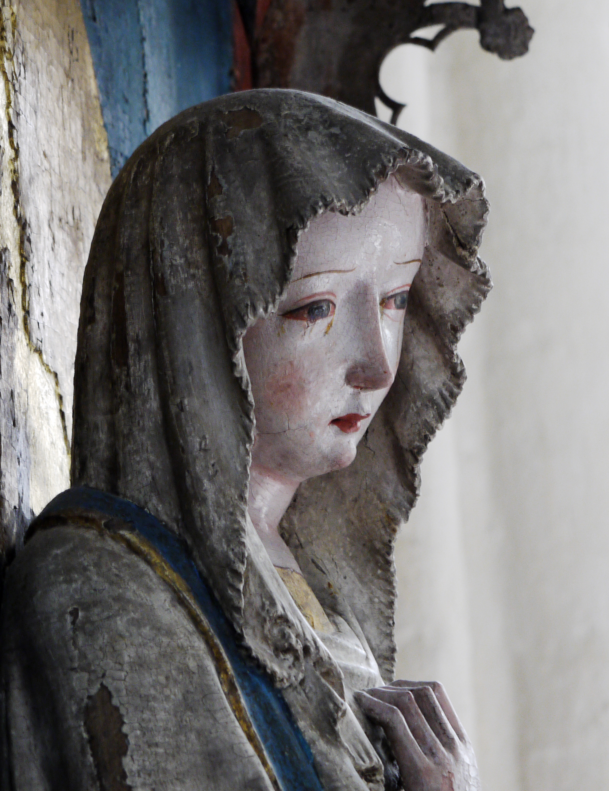 Askeby church, Diocese of Linköping, Sweden. Pieta.